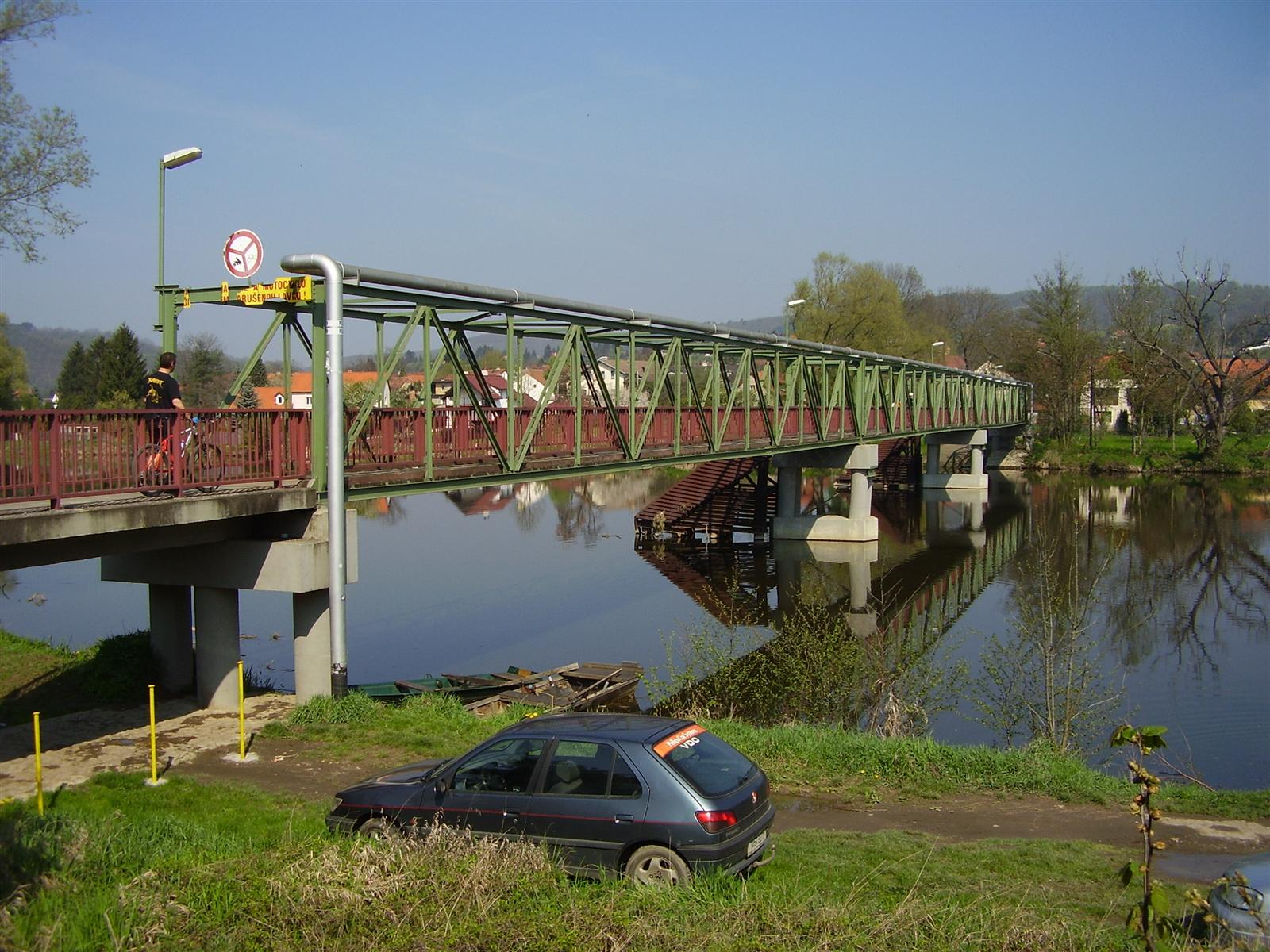 Bridge over Berounka between Zadní and Hlásná Třebáň